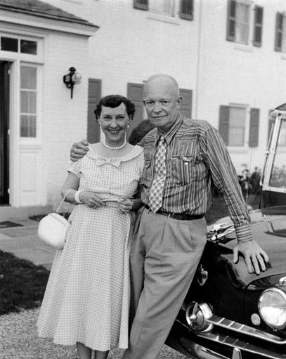 President and Mrs. Dwight D. Eisenhower posed for this portrait on their 39th wedding anniversary at their farm (Eisenhower National Historic Site) in Gettysburg, Pennsylvania.